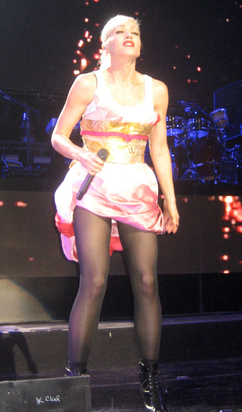 Gwen Stefani, sing early winter